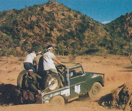 Rhino Charge 1995